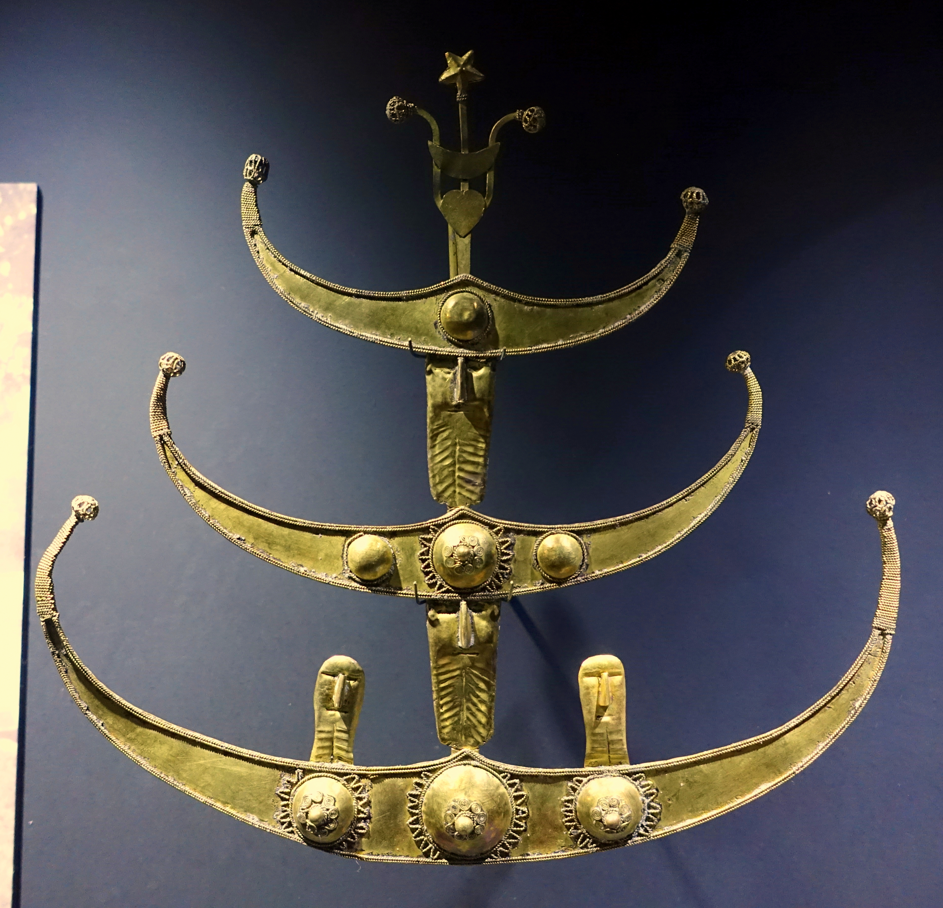 Exhibit in the Museu do Oriente - Lisbon, Portugal. This work is old enough so that it is in the public domain.